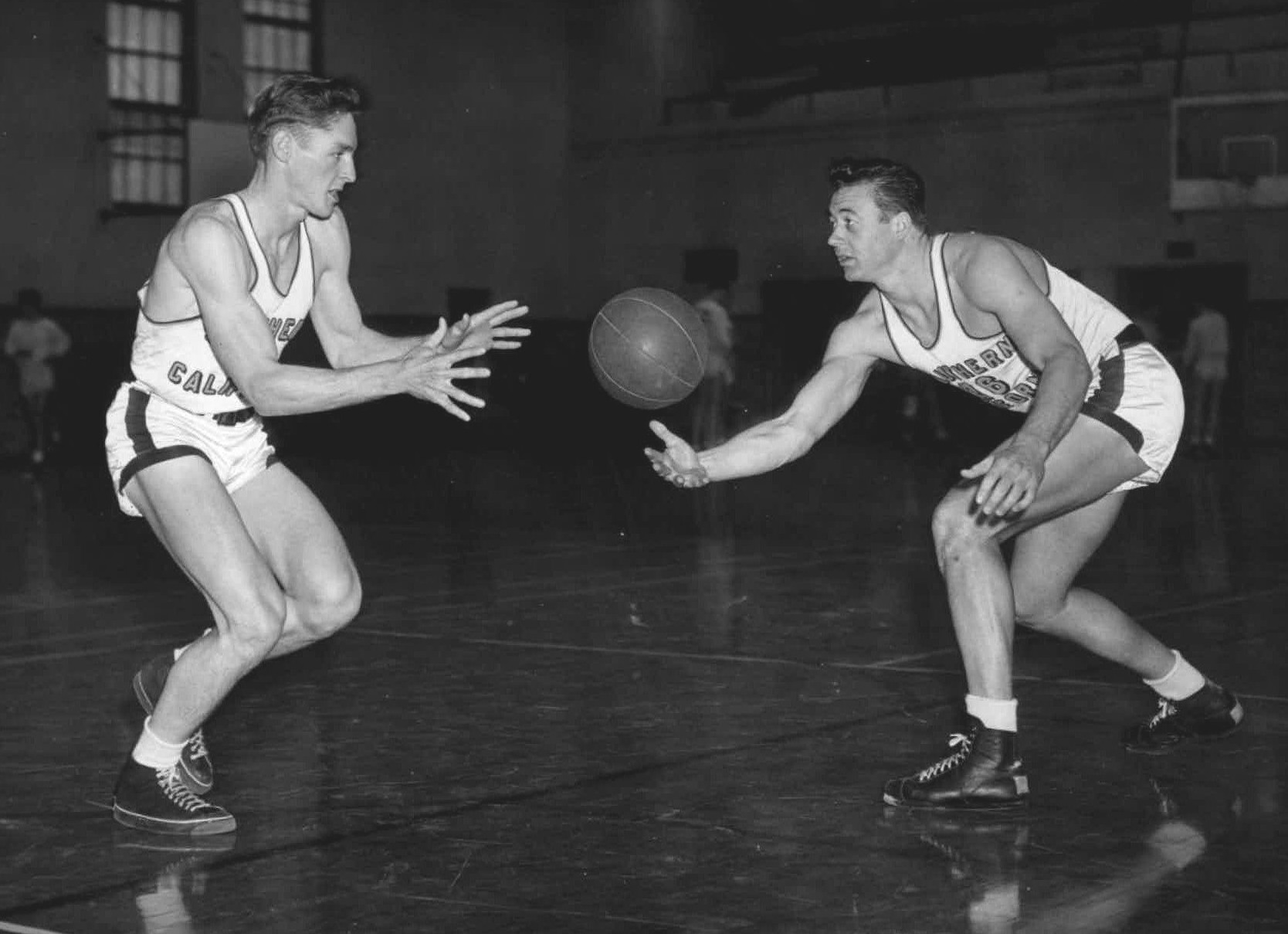 Basketball players Bill Sherman and Stan Christie